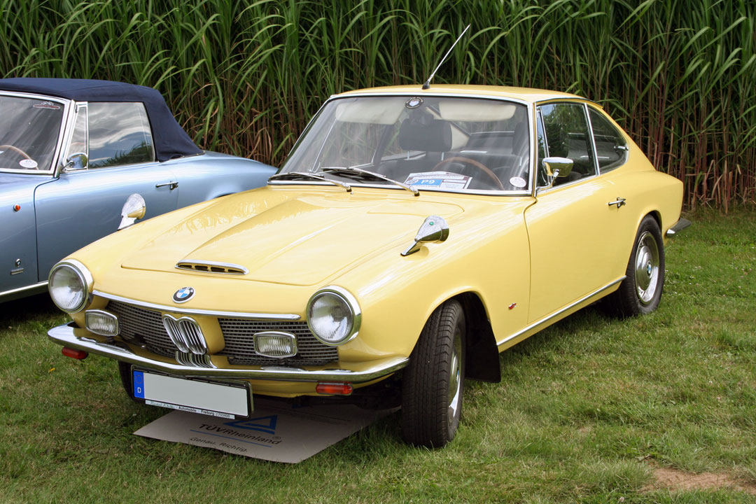 BMW 1600 GT Coupé at Classic Days Schloss Dyck 2012. View: front left